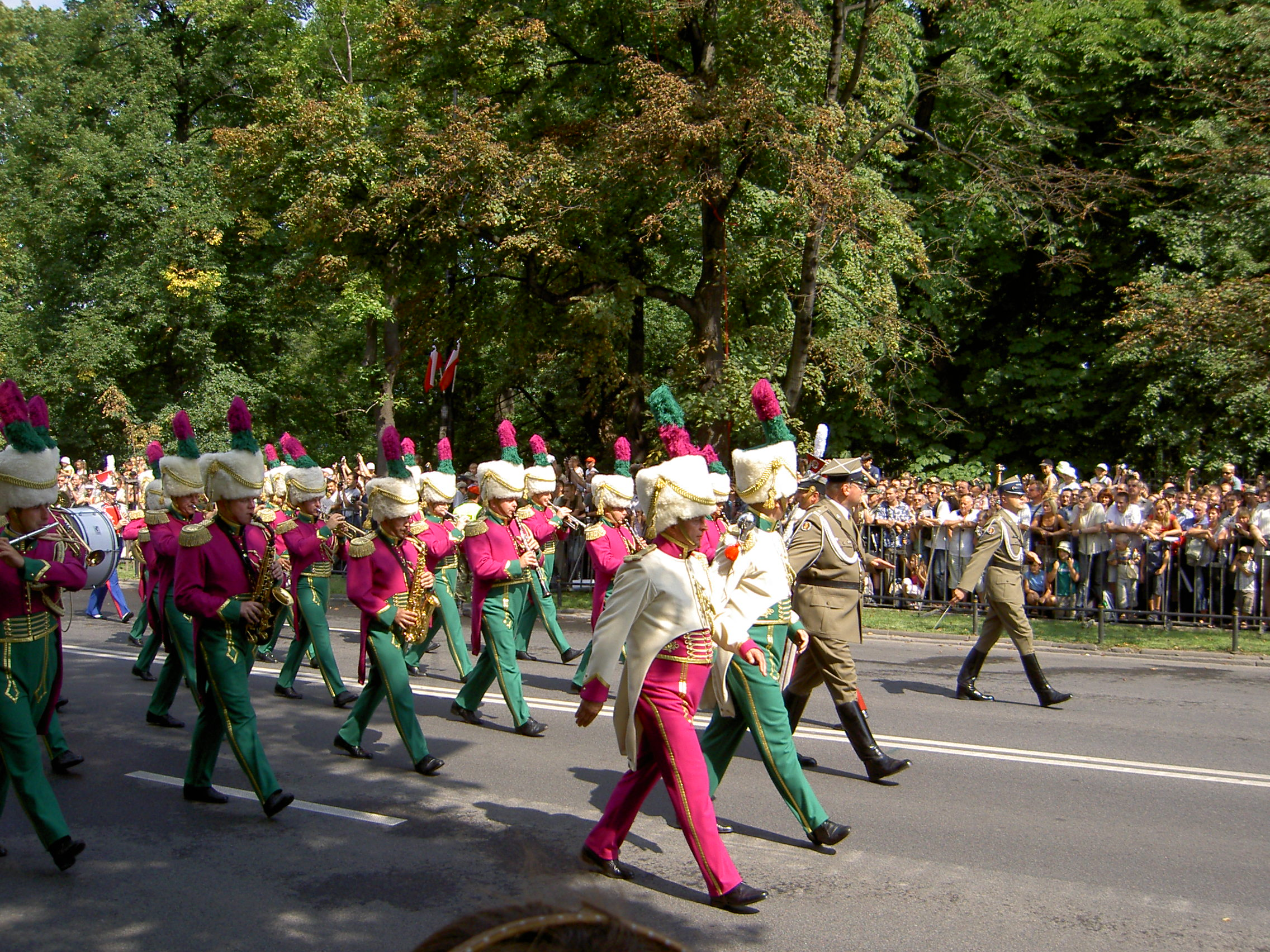 Military orchestra of hte Polish Army dressed in historic uniforms.